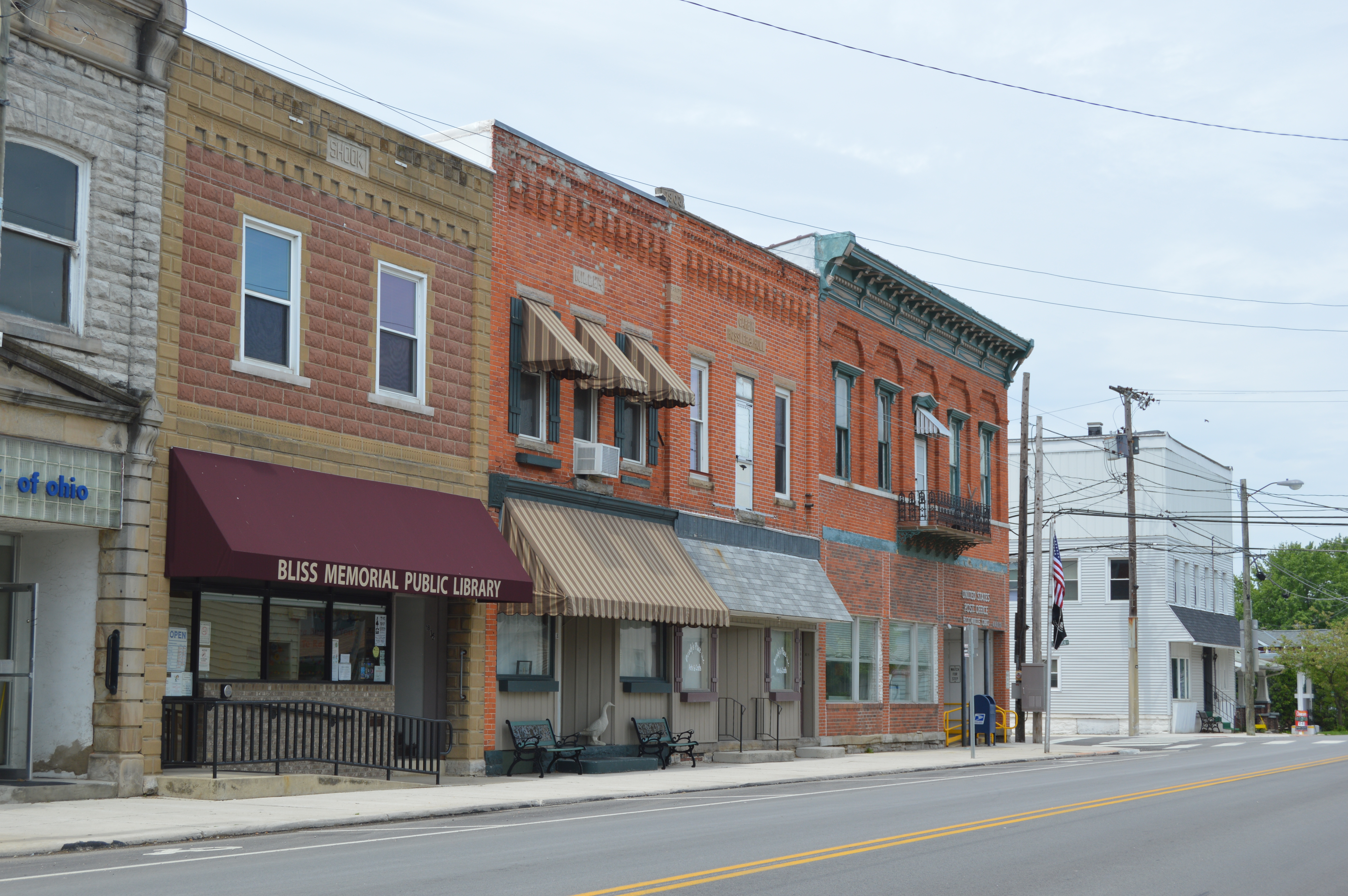 Buildings on the western side of the first block of S. Marion Street (State Route 19) in central Bloomville, Ohio, United States.